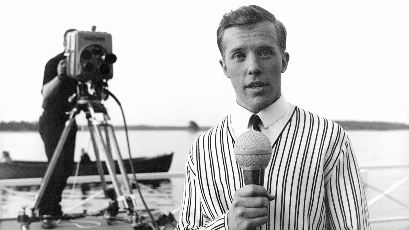 Photograph of the Finnish announcer and music promotor Antti Einiö (1935–).